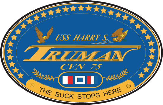 Emblem of the USS Harry Truman CVN-75